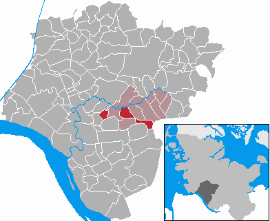 This map shows the area of the municipality Breitenburg in the Kreis (district) Steinburg, Schleswig-Holstein, Germany.